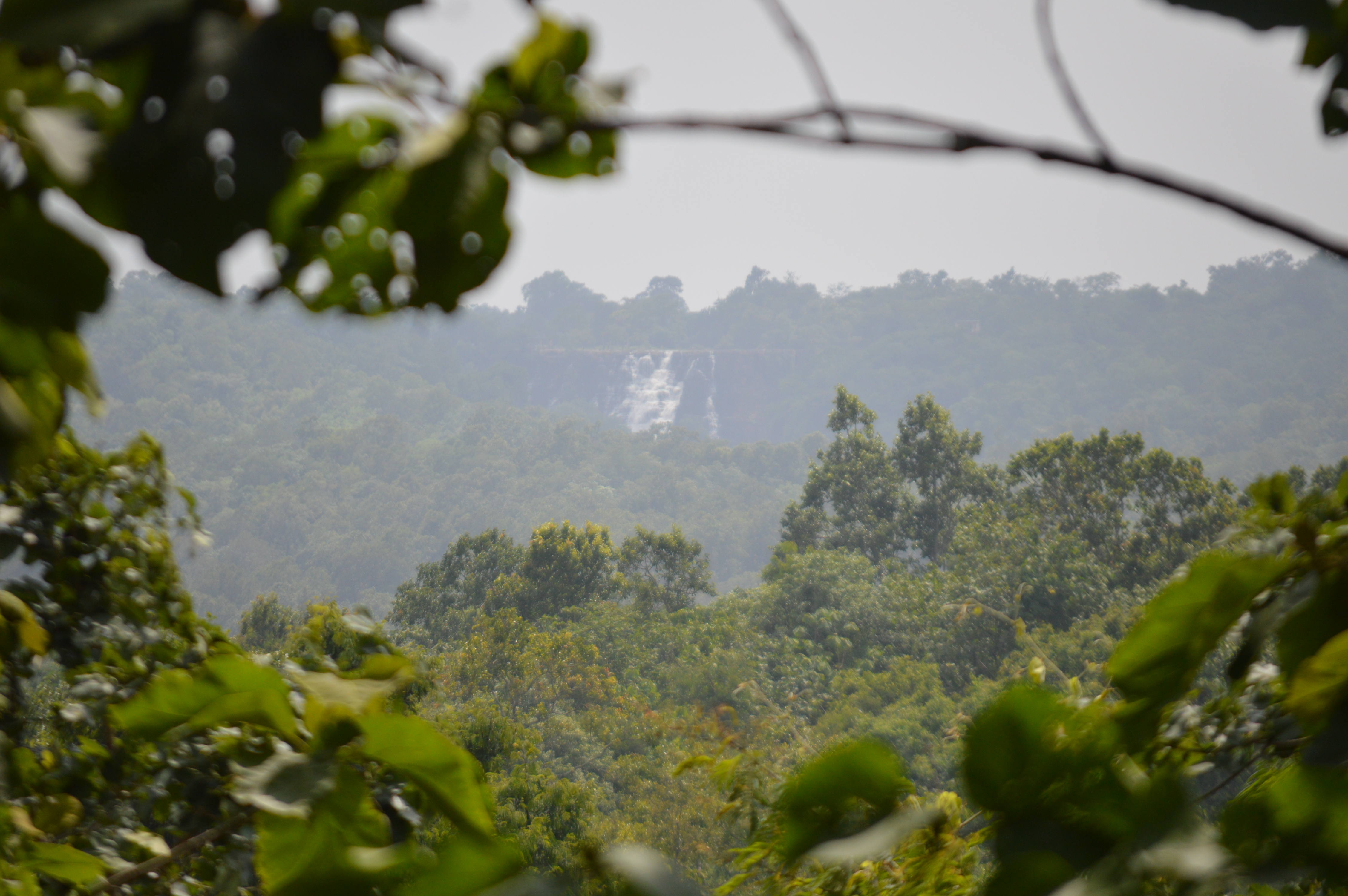 beautifull view Of Kanger Valley NAtional Park , Chattisgarh